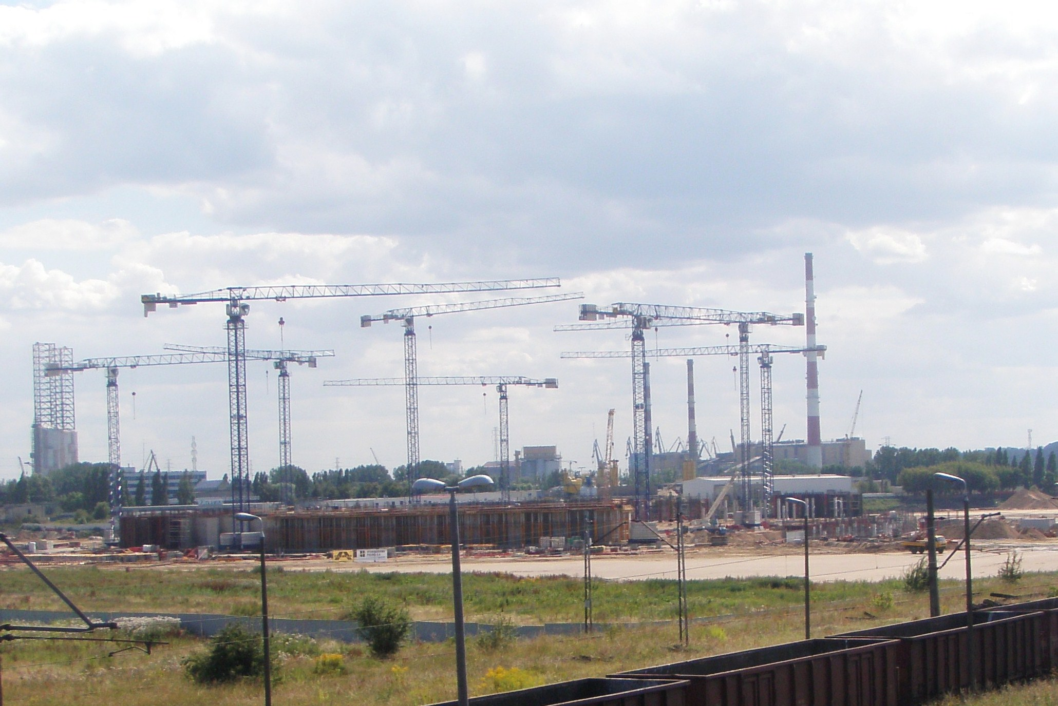 The football stadium in Gdańsk Letnica (Poland) under construction, August 2009.